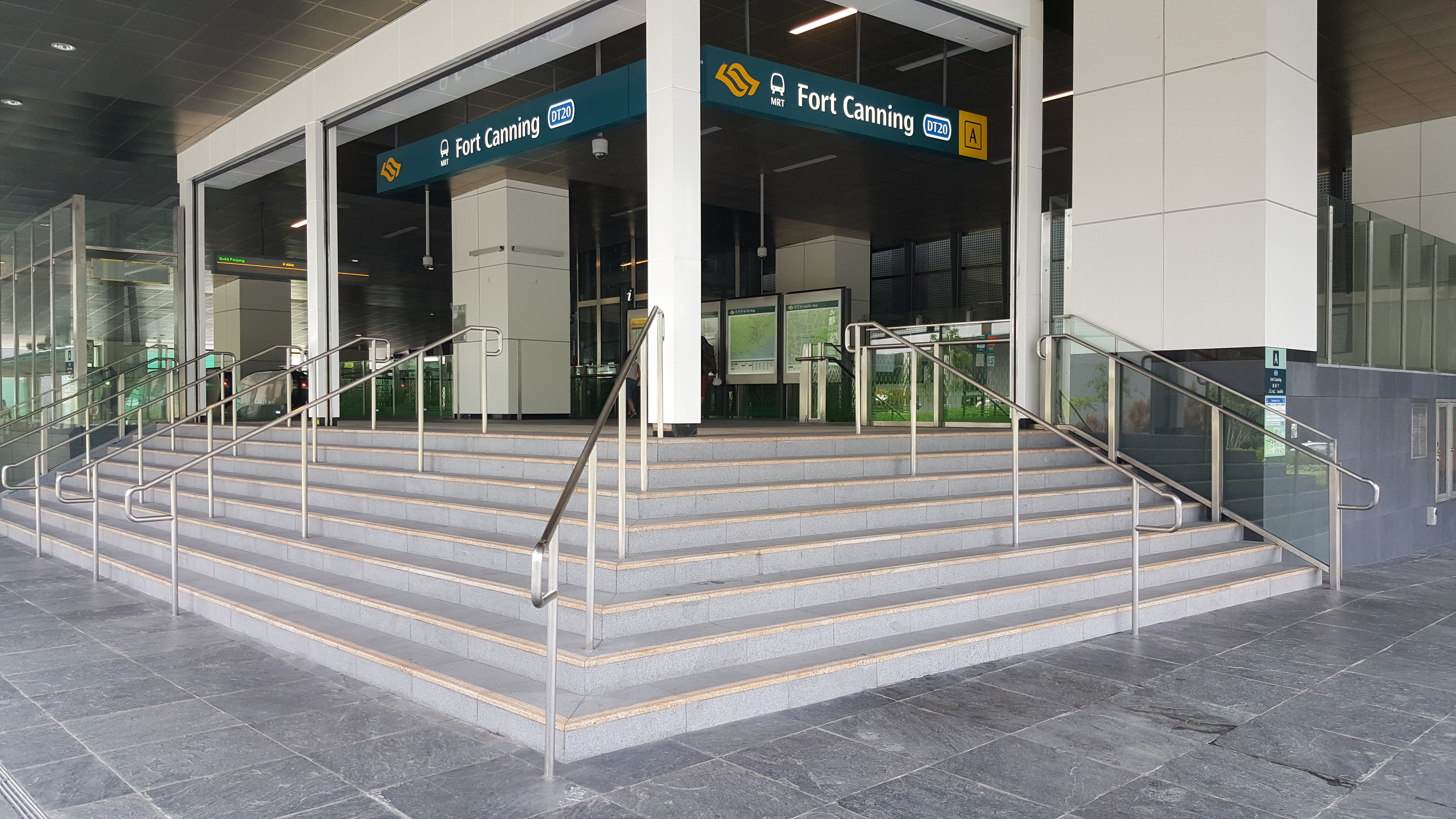 Fort Canning MRT Station Exit A